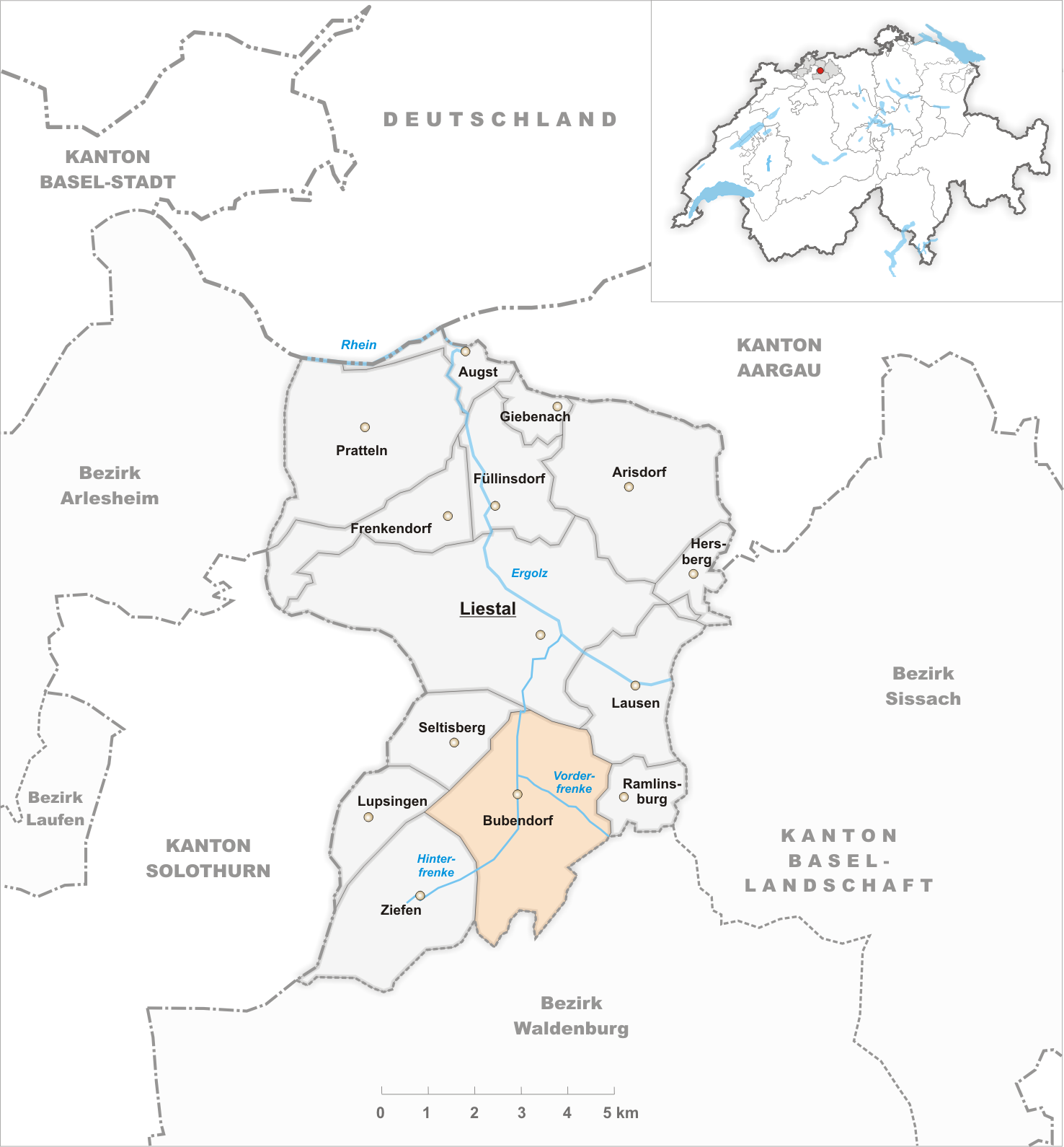 Municipality Bubendorf